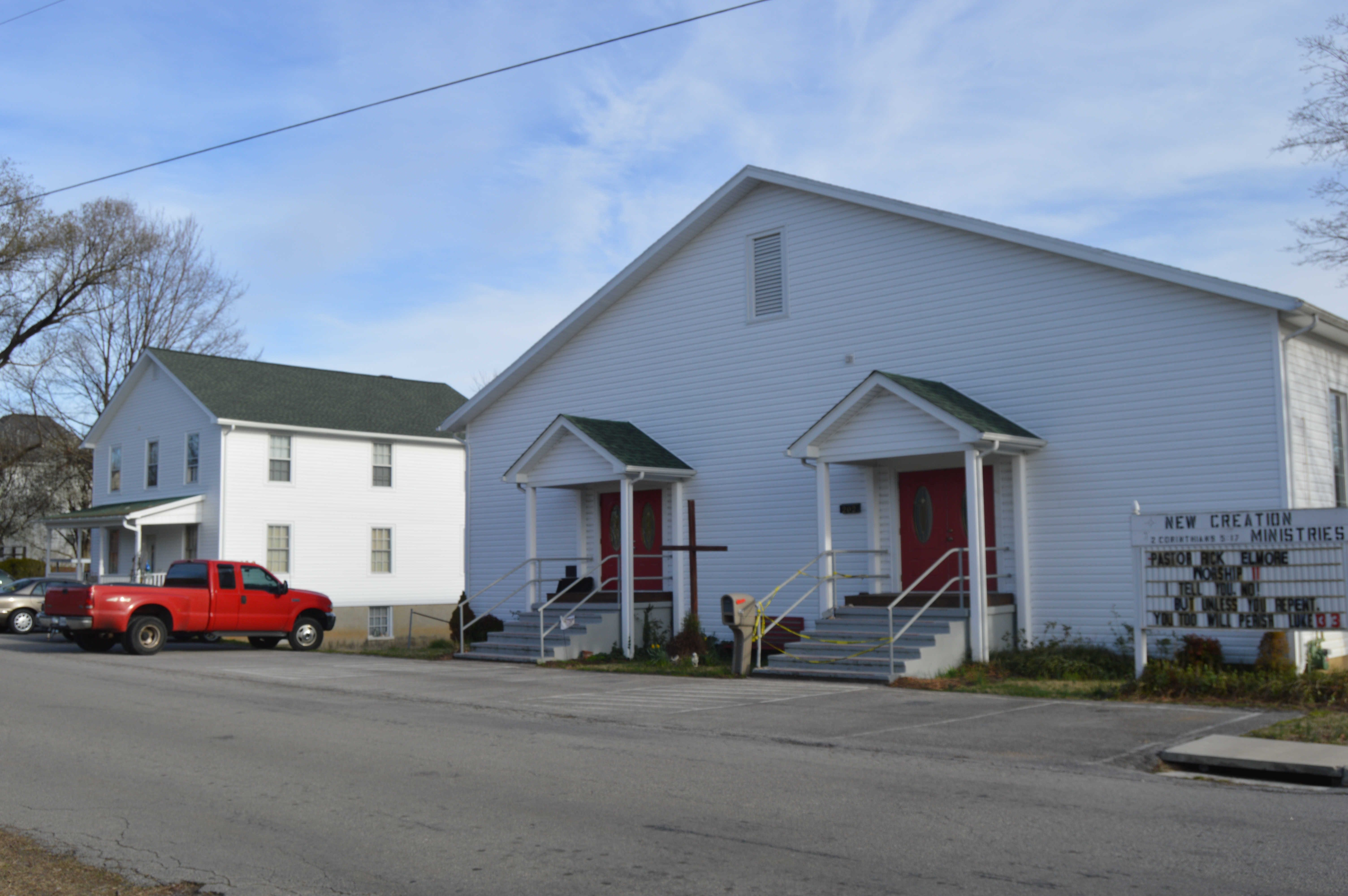 Front of New Creation Ministries and an adjacent house, located at 202-208 E. Third Street in Salem, Virginia, United States. Together, these two buildings (constructed in 1922 and 1926, respectively) comprise the Salem Camp Meeting complex, which is listed on the National Register of Historic Places.